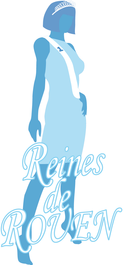 Logo